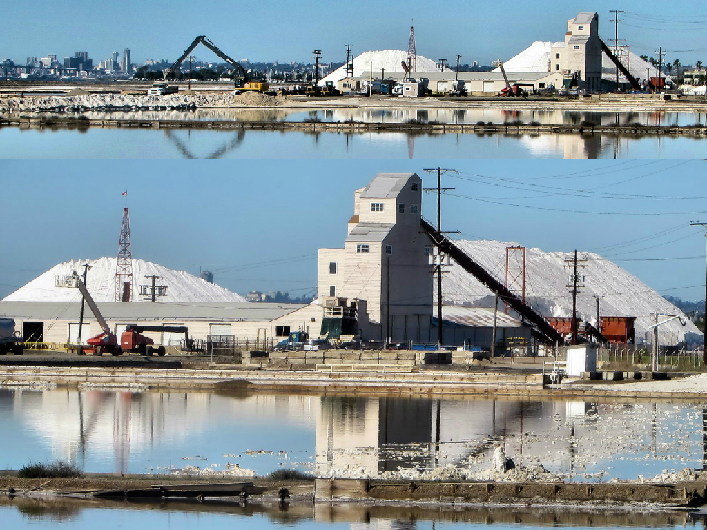 South San Diego Salt works dehydrating seawater to extract salt.